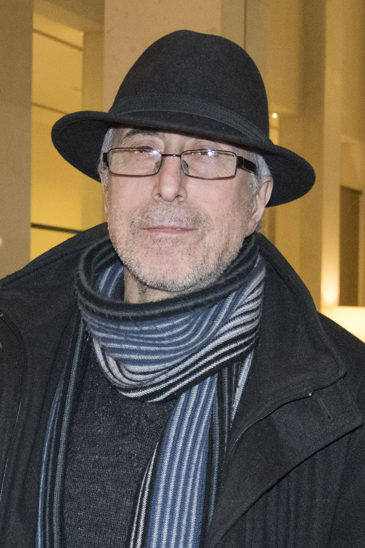 Director Dito Tsintsadze in Berlin, February 2017